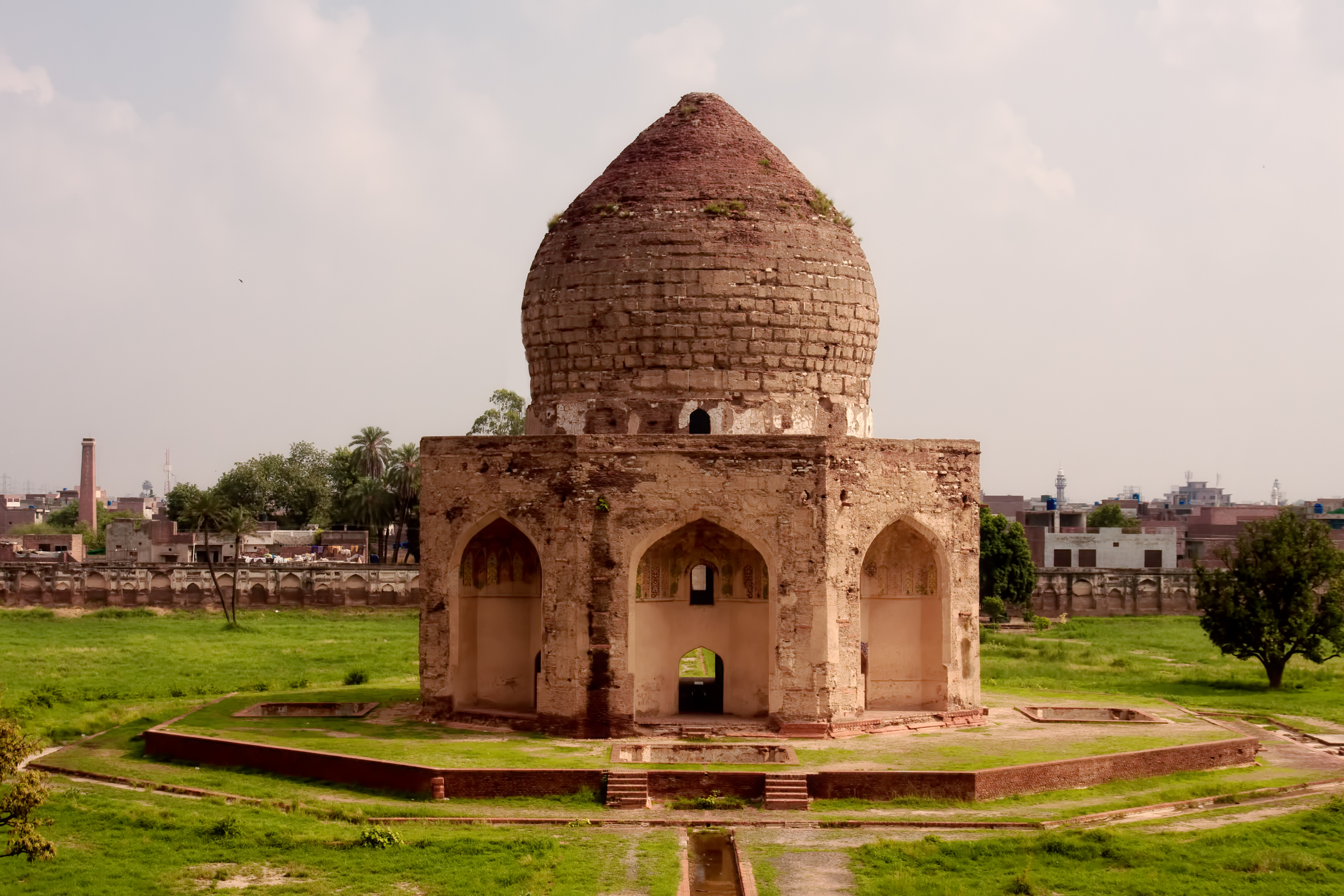 Tomb of Asif Khan This is a photo of a monument in Pakistan identified as the PB-43